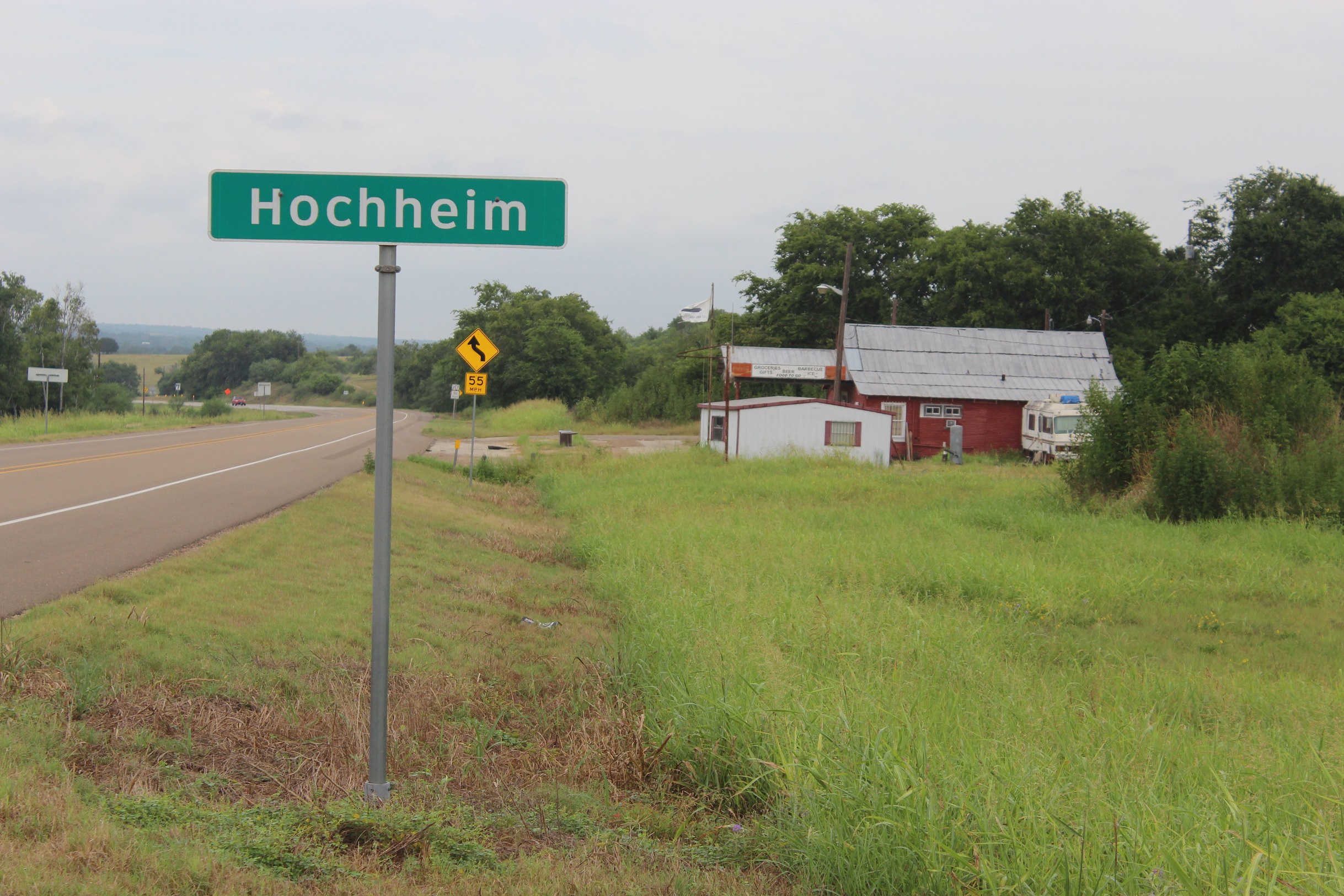 Hochheim (Hoch's Home). Founded near home and stage stand of Valentine Hoch on old Austin - Indianola Road, 1856. In 1864, German Methodist Church was built; post office opened 1869. County's first Protestant church (organized 1841 on Cuero Creek by J. M. Baker and James N. Smith) moved here in 1882 as Hochheim Presbyterian Church. The Baptist church was founded later (1923). Concrete Lodge No. 182, A. F. & A. M. (Chartered 1856 with F. J. Lynch, first worshipful master), became Hochheim Lodge, 1884, buying (1885) upper story of schoolhouse for Lodge Hall; in 1921 bought lower story, housing school until 1938. #2502